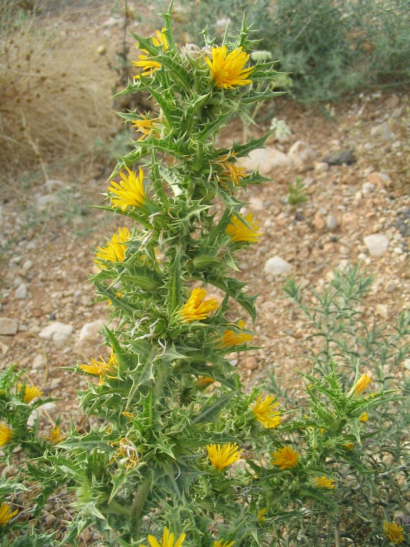 Scolymus hispanicus, Spanish Oyster Thistle or tagarnina